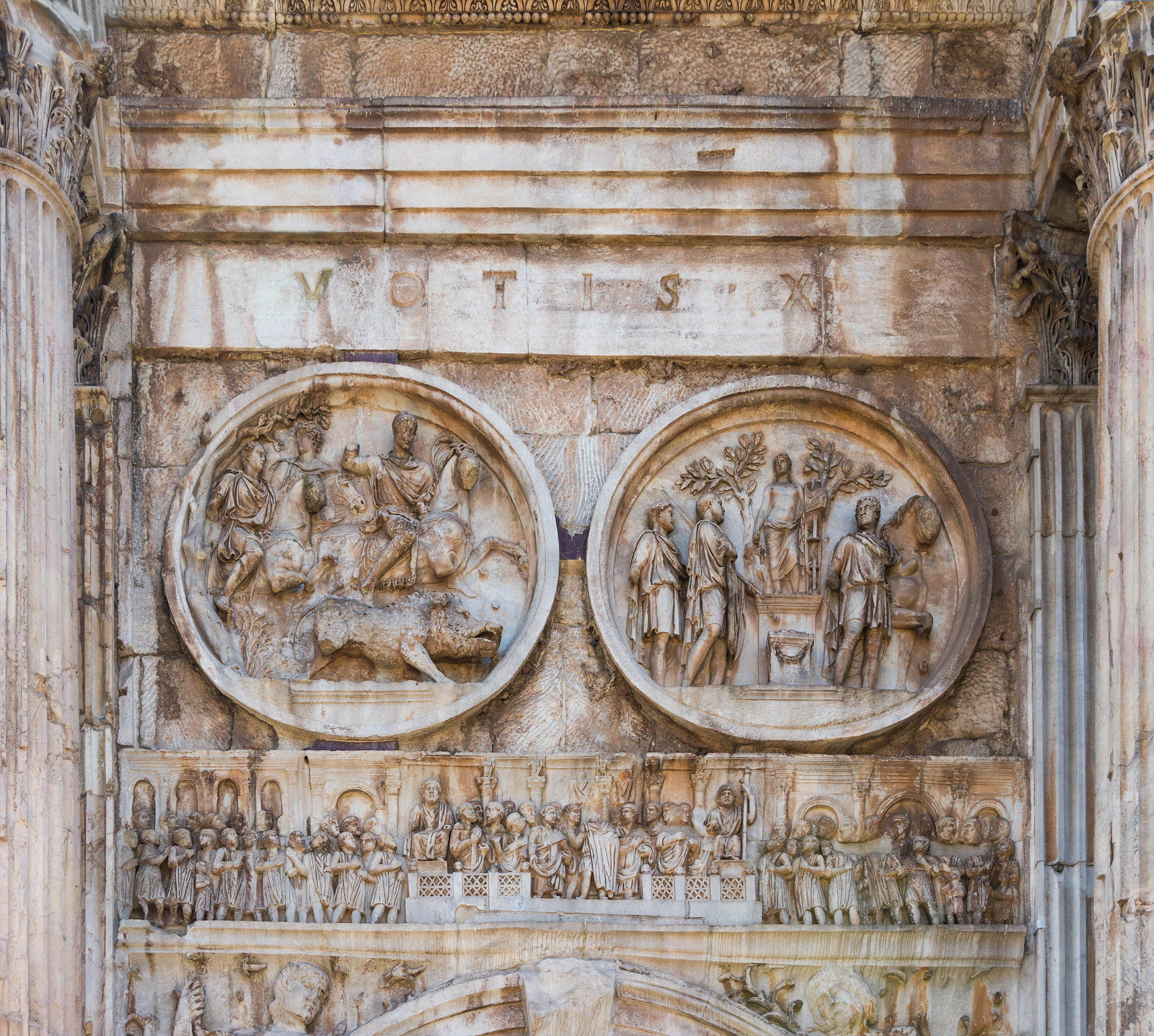 Reliefs of the Arch of Constantine, Rome, Italy.